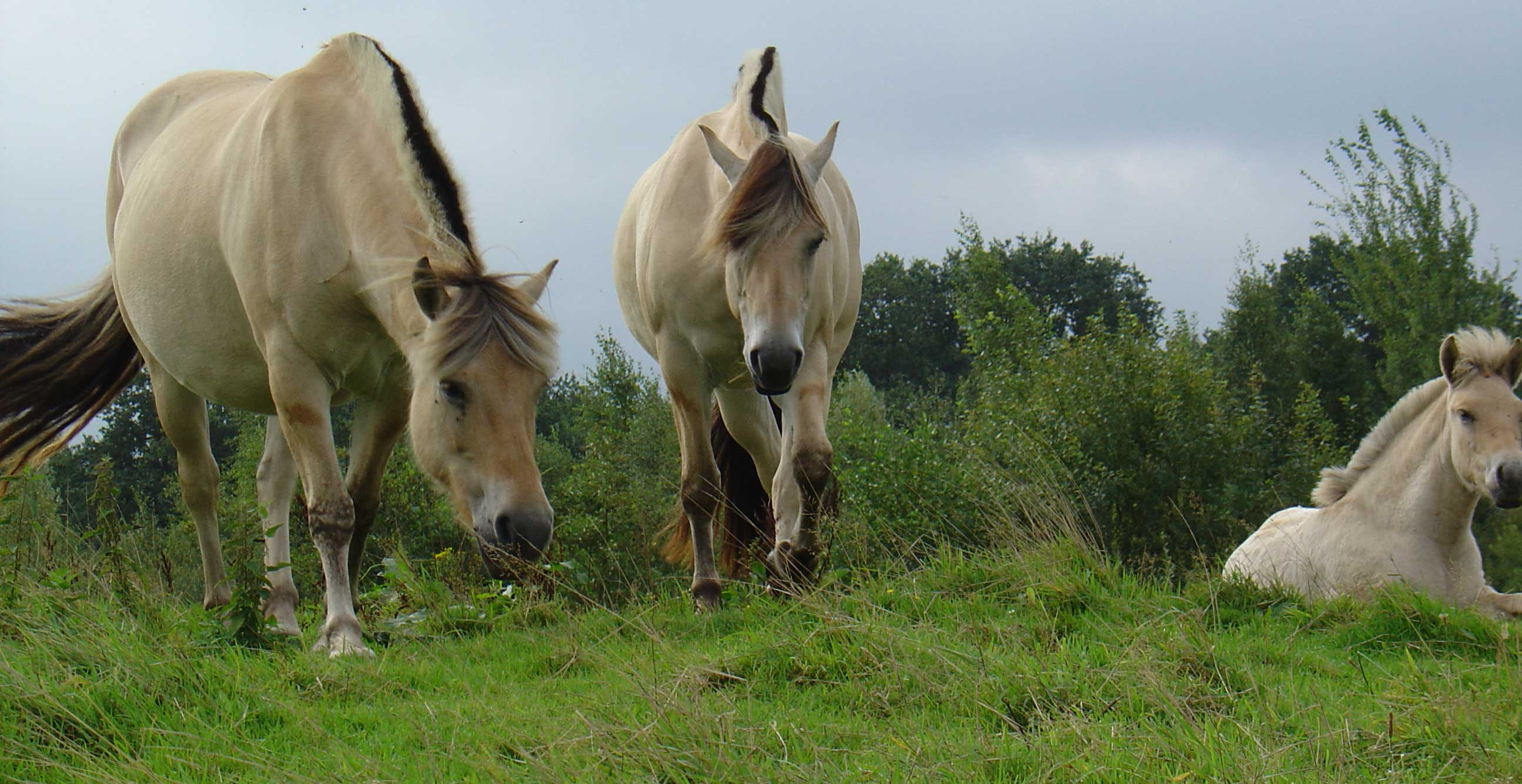 Norwegian fjord horse